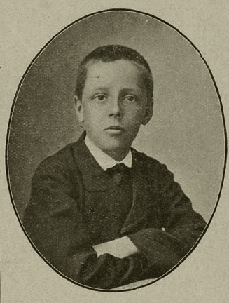 Henrik Sillem as an adolescent